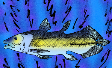 Reconstruction of the latimeriid coelacanthid, Ticinepomis peyeri, from the Middle Triassic of Monte San Giorgio, Switzerland